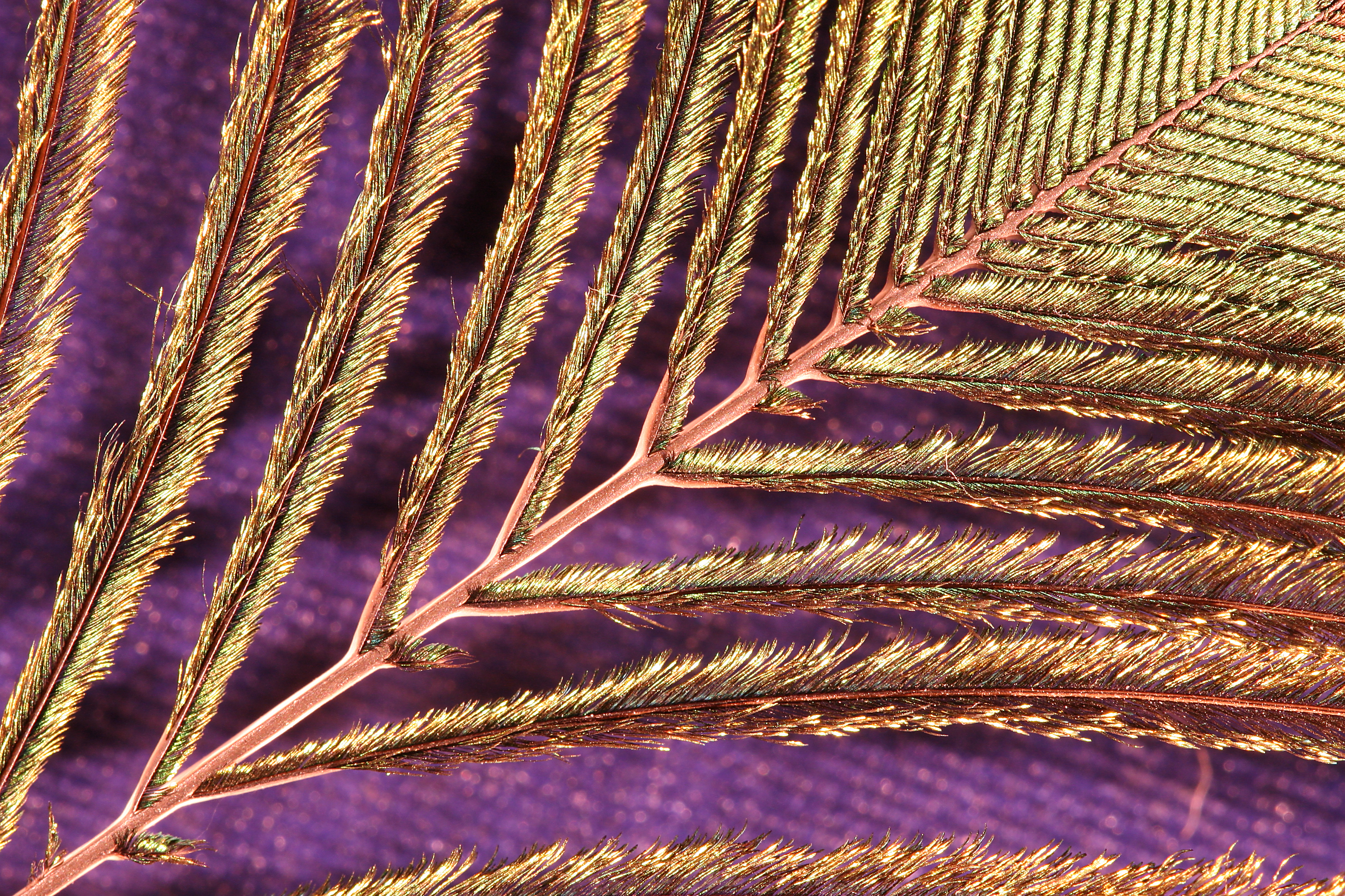 Shaft of male Indian Peafowl tail feather (Pavo cristatus)